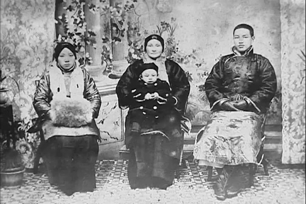 Early family of Chiang Kai-shek: Chiang Kai-Shek (right) with his first wife Mao Fumei (left), mother Wang Caiyu (center back), and the first son Chiang Ching-guo (center front).